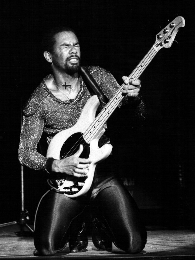 Bassist Louis Johnson in Paris, France